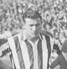 Athletic Club de Bilbao, 1930-31 Spanish League Champions. Line up: Muguerza, Chirri II, Urquizu, Lafuente, Blasco, Ispizúa, Uribe, Unamuno, Castellanos, Bata, R. Echevarría & Gorostiza